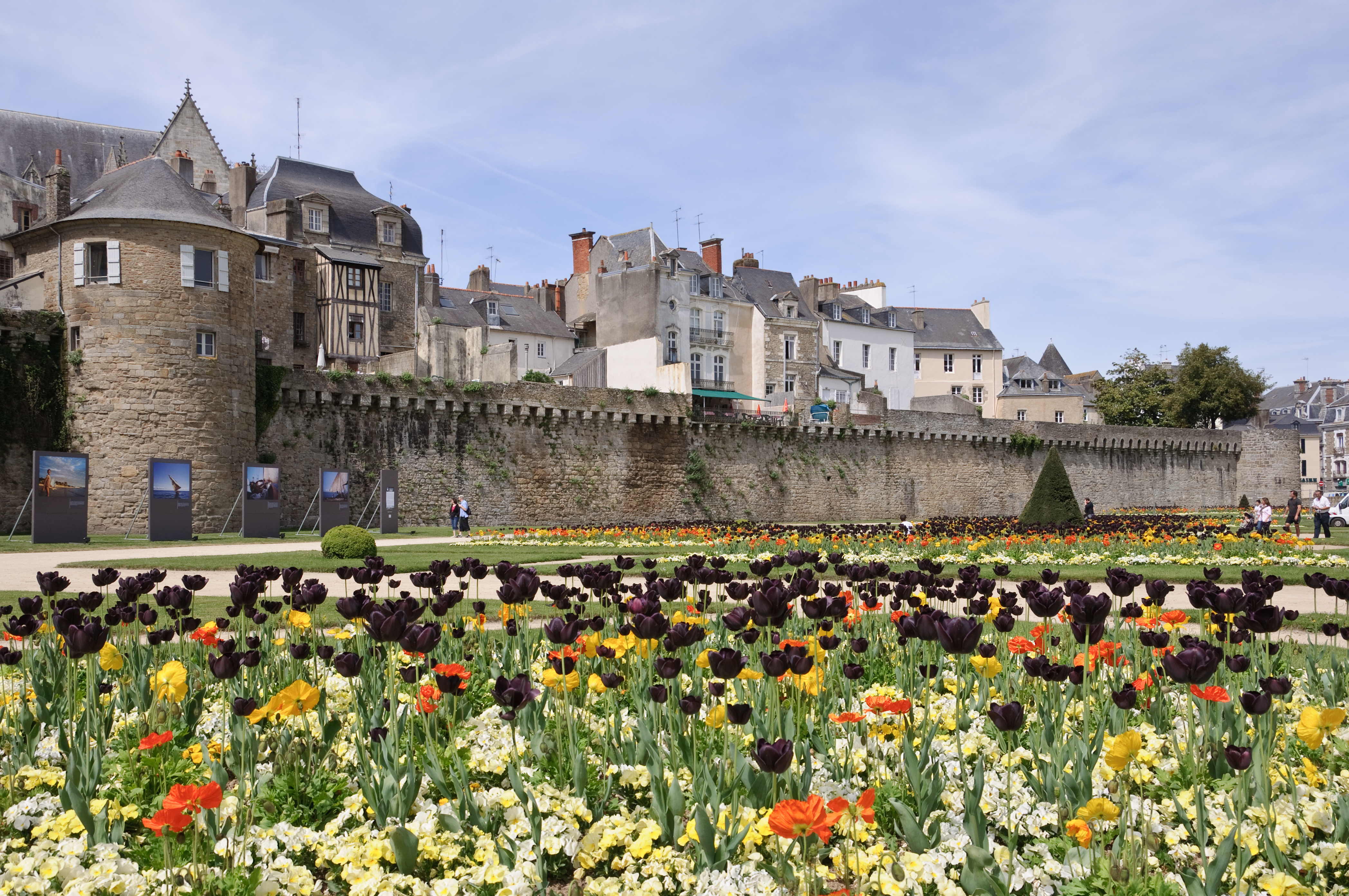 City walls of Vannes, Morbihan, France, from tour Poudrière (= "Powder magazine Tower") to tour Joliette (="Joliette Tower"), during the "Photo de mer" festival in spring 2010.